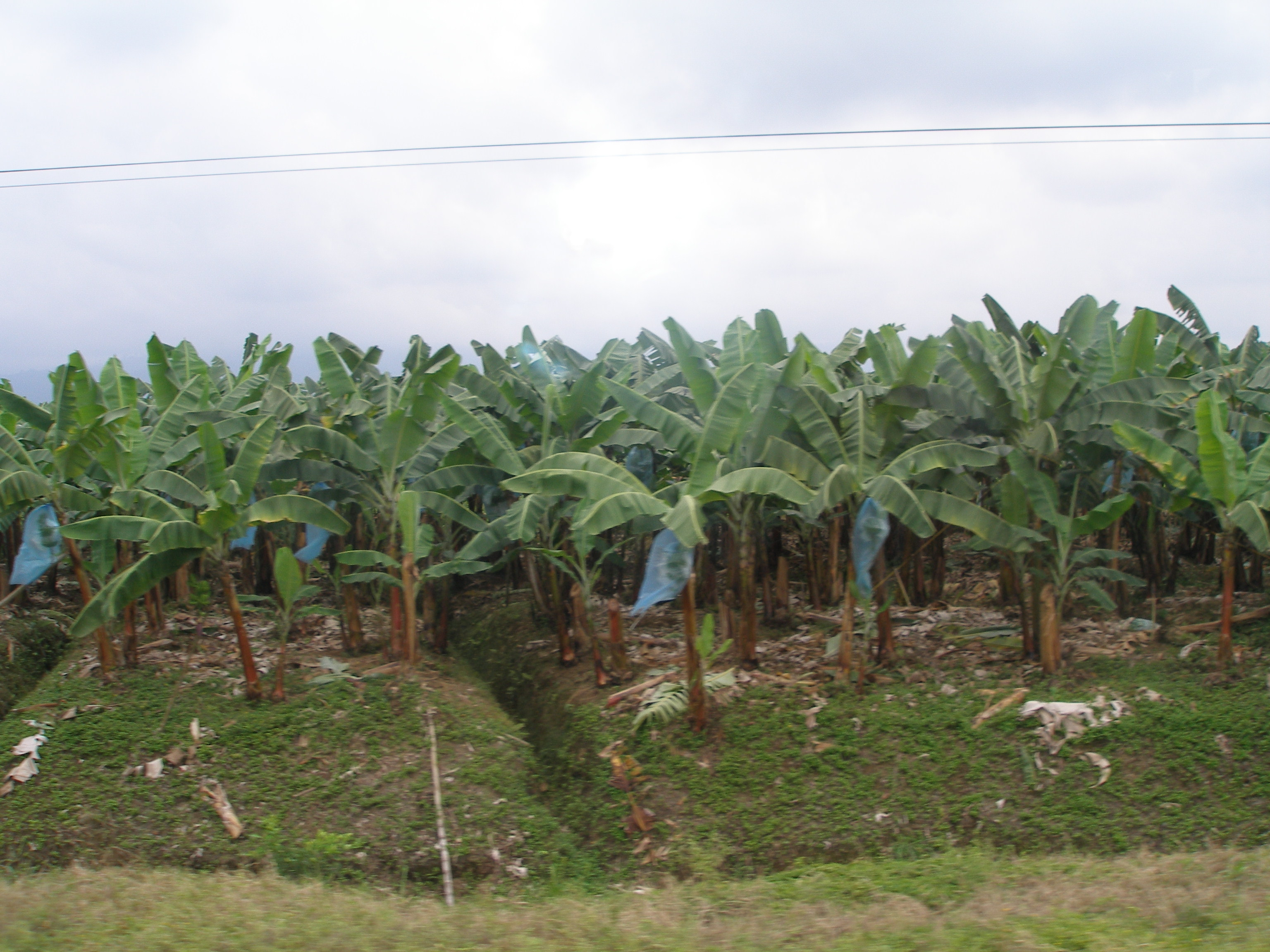 A picture of a banana culture in Ecuador.